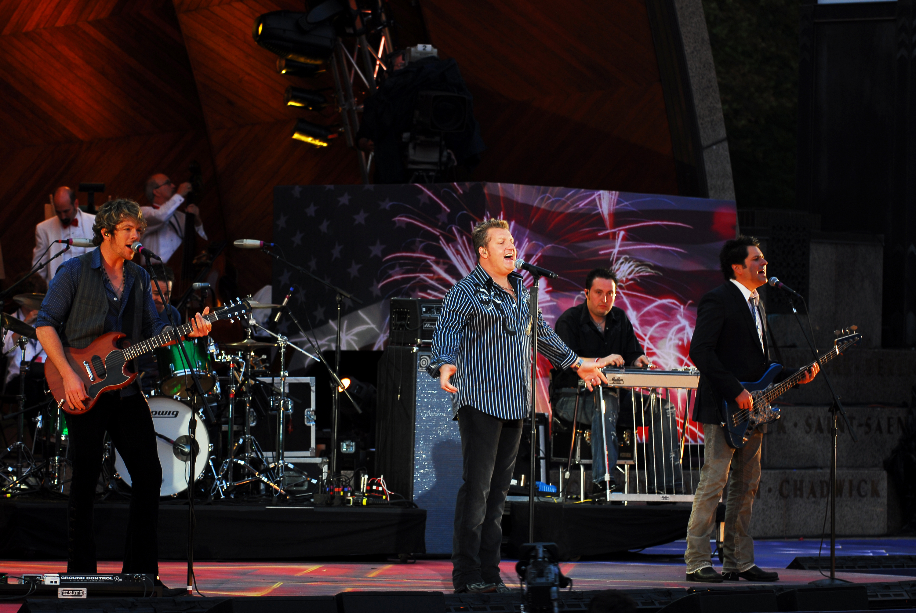 BOSTON (July 4, 2008) Rascal Flatts performs in Boston's Esplanade during the 35th Annual Boston Pops Fireworks Spectacular. The Multi-purpose amphibious assault ship USS Bataan (LHD 5) is in Boston participating in the 27th annual Boston Harborfest, a six-day long Fourth of July festival showcasing the colonial and maritime heritage of the cradle of the American Revolution. U.S. Navy photo by Mass Communication Specialist 3rd Class Patrick Gearhiser (Released)